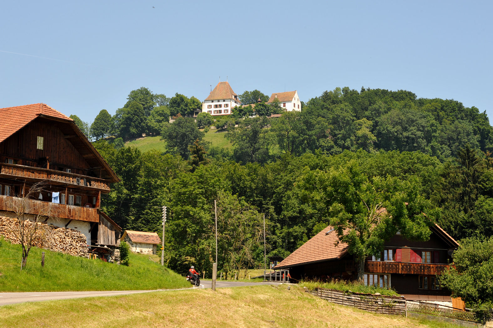 Burgistein castle between Wattenwil and Riggisberg; Bern, Switzerland.